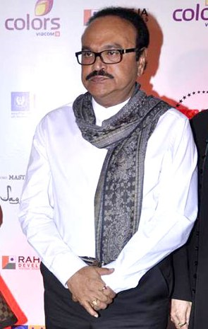 Chhagan Bhujbal at singer Jagjit Singh's anniversary